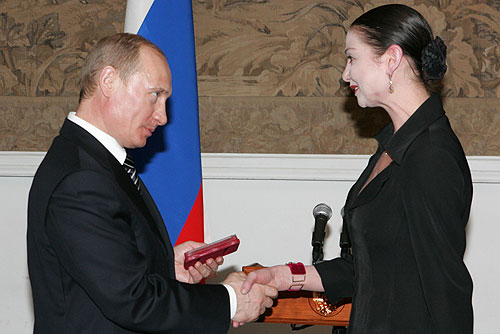 MARIINSKY THEATRE, ST PETERSBURG. State decorations award ceremony. Yulia Makhalina, ballerina at the State Academic Mariinsky Theatre received the honorary title of People's Artist of Russia.